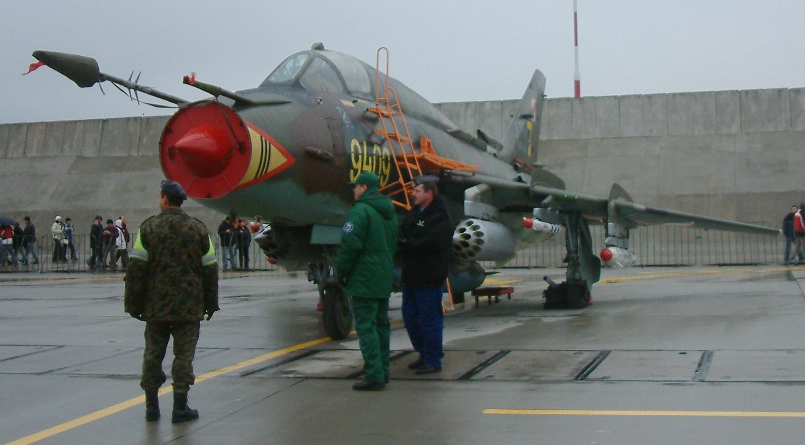 Su-22M4K (Su-17M4K) #9409 of Polish Air Force with markings of 7th Tactical Sqd., 31st. Air Base Poznań-Krzesiny